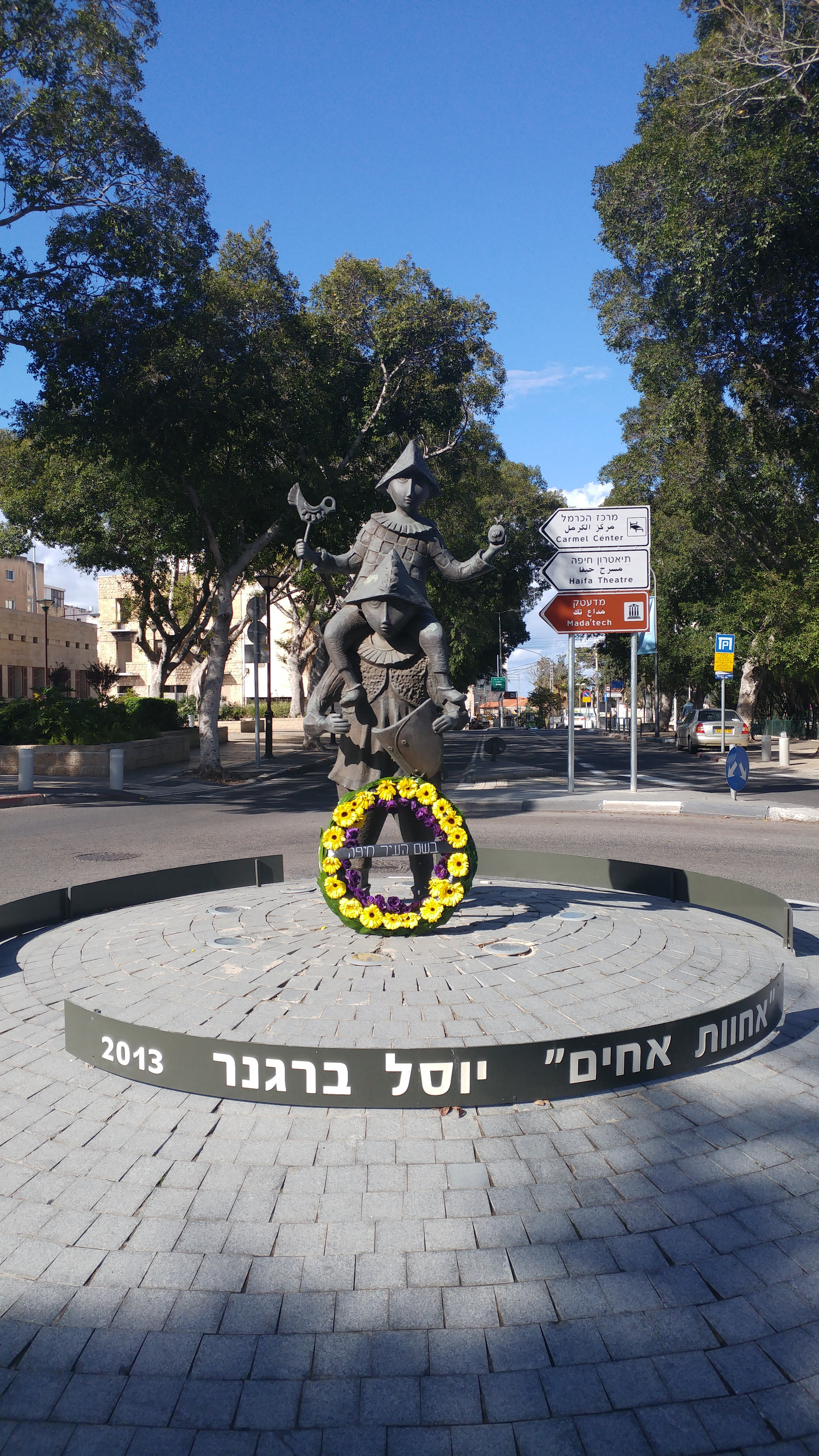 Yosl Bergner roundabout located at the crossing of Hassan Shukri-Baerwald streets. Haifa, Israel.